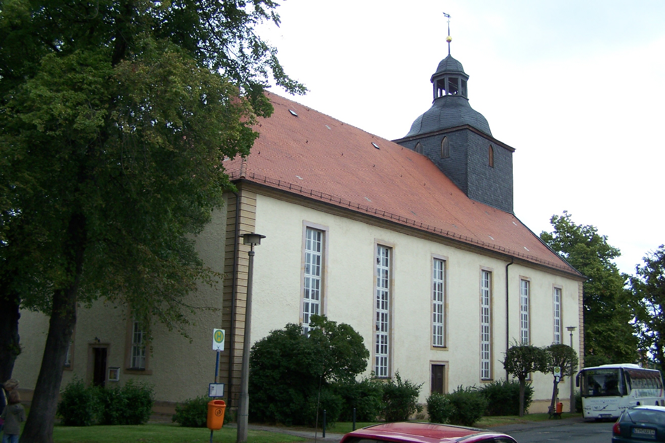 The Trinitatis Church in Ohrdruf.